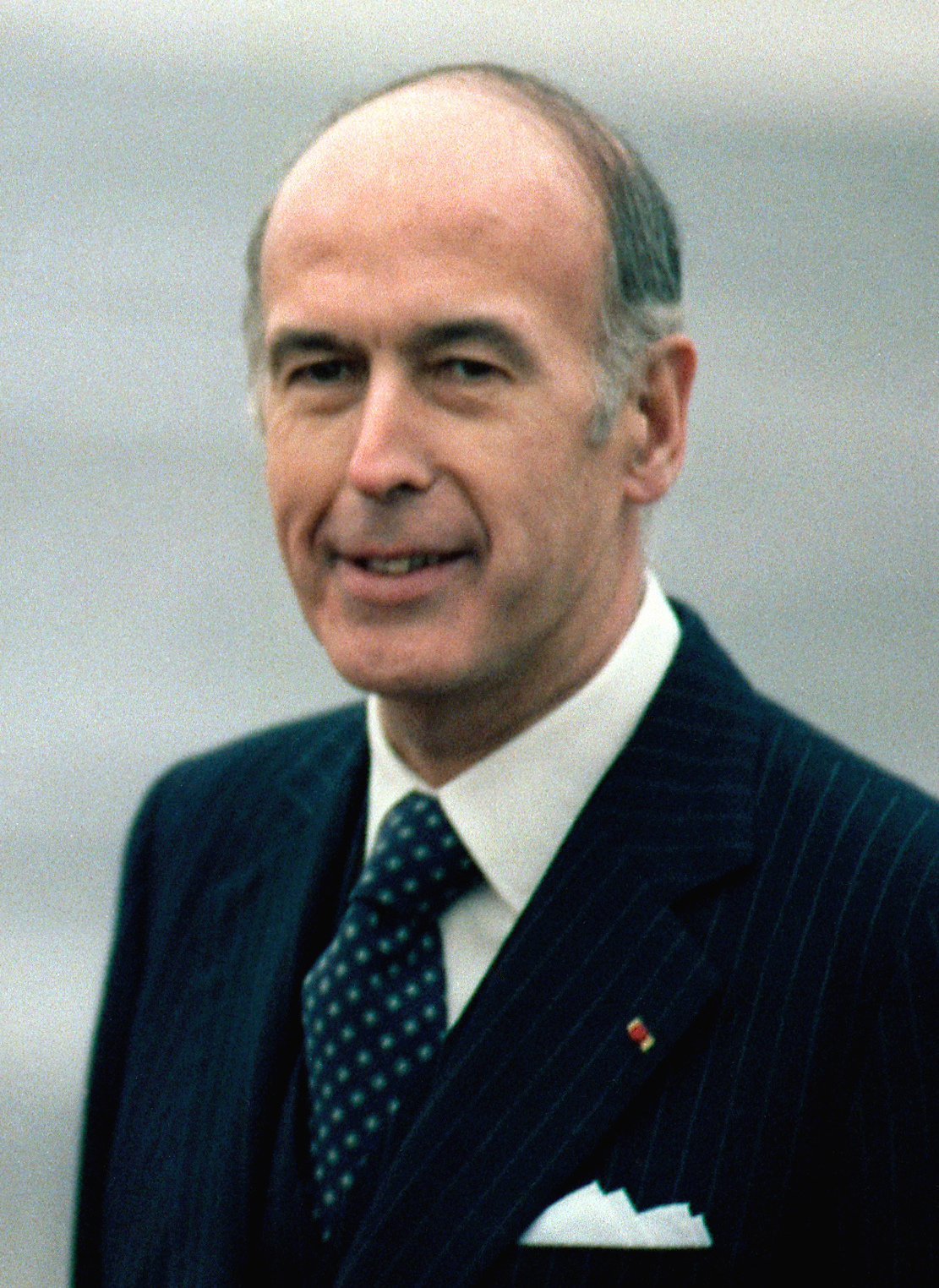 French president Valéry Giscard d’Estaing on January 5, 1978, during a visit of Jimmy Carter in Normandy.